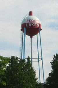 The water tower in Pequot Lakes, Minnesota is shaped like a fishing bobber.